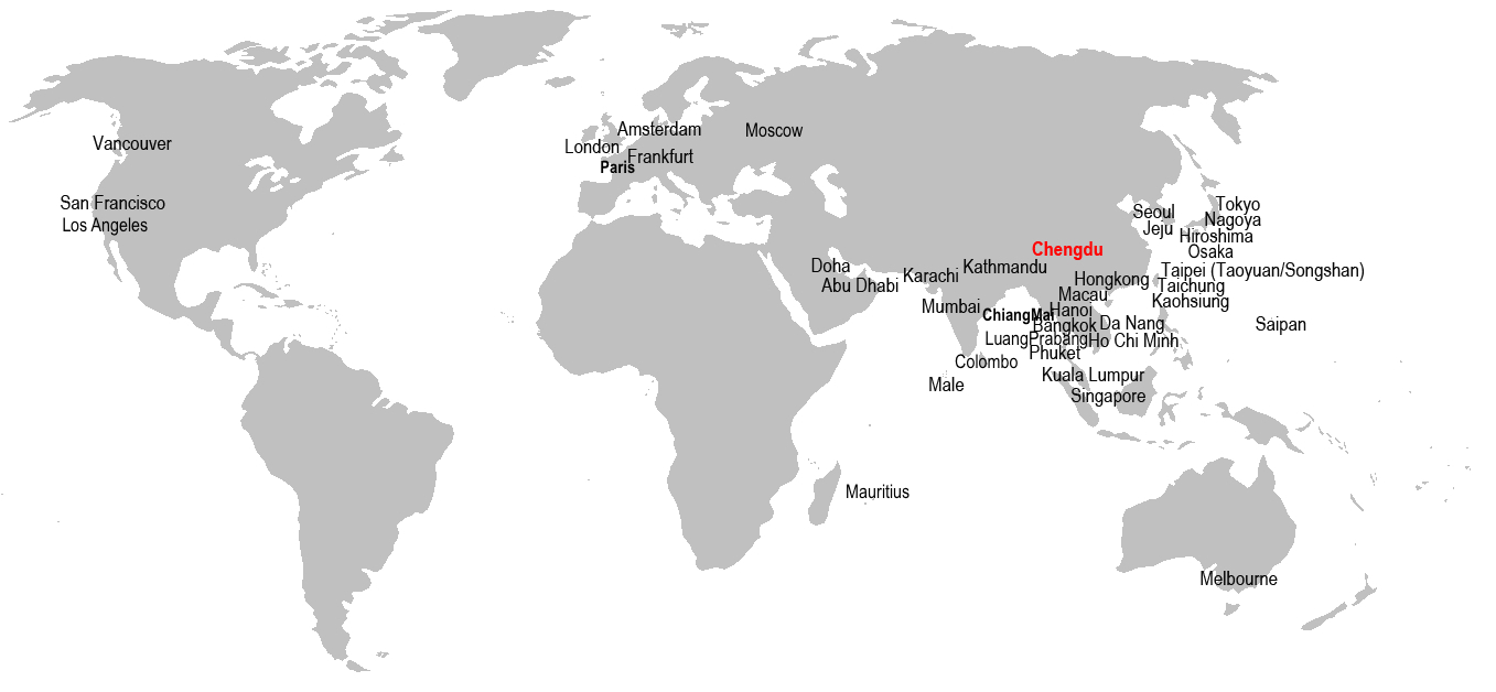 Destination of Chengdu Shuangliu International Airport